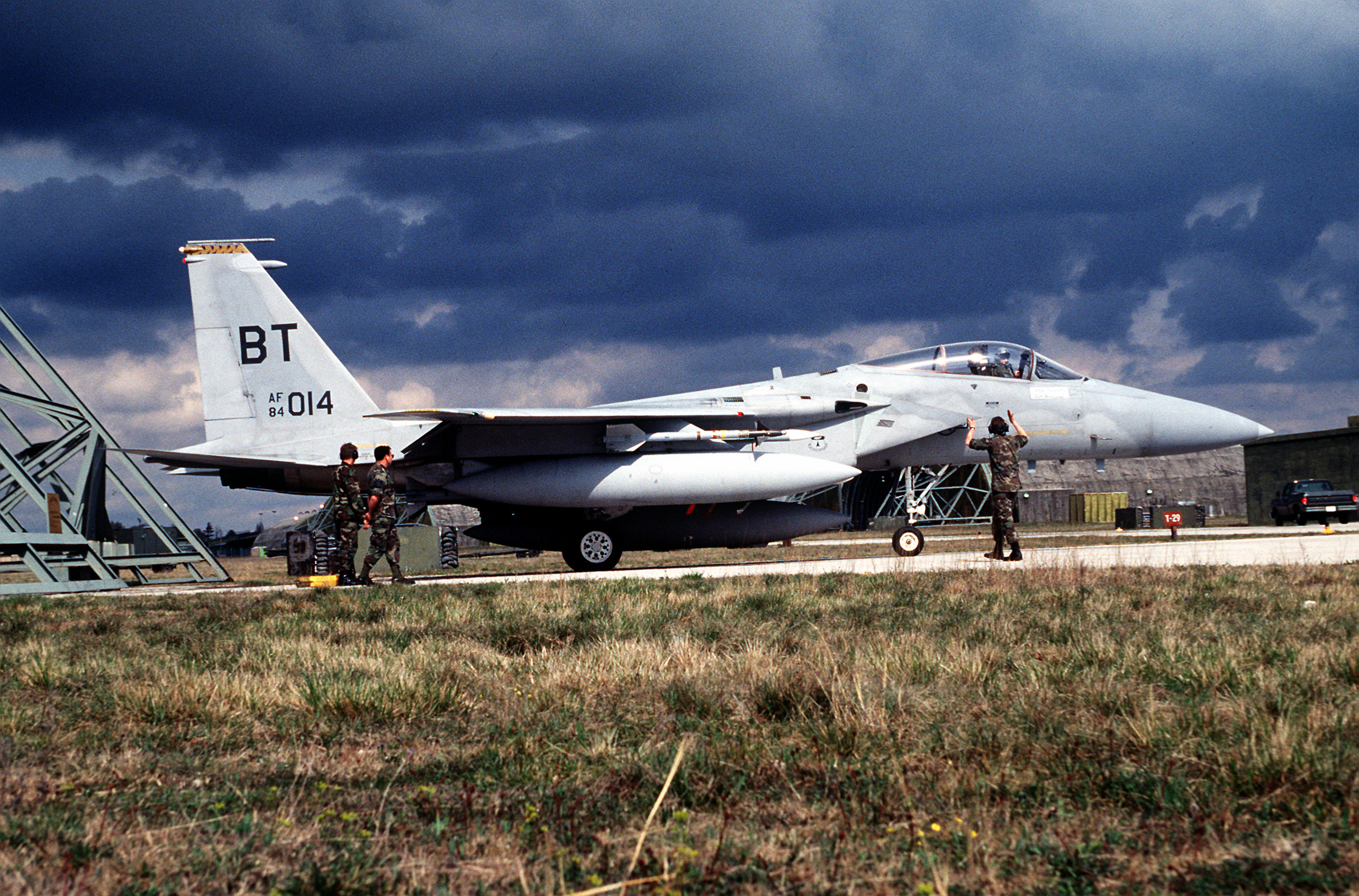 A U.S. Air Force McDonnell Douglas F-15C-37-MC Eagle (s/n 84-0014) from the 53rd Fighter Squadron, 36th Fighter Wing, based at Bitburg air base, Rhineland-Palatinate, Germany, is met by maintenance personnel at Aviano air base, Italy, after a mission over Bosnia to enforce the No-Fly Zone on 1 June 1993. 84-0014 was used to shoot down aircraft: on 20 March 1991 Capt. John T. Doneski (53rd FS) shot down an Iraqi Sukhoi Su-22M with an AIM-9M Sidewinder during operation "Desert Storm". On 26 March 1999 Capt. Joe McMurry (493rd FS, 48th FW) fired an AIM-120 at two Serbian MiG-29Bs, but the kills were credited to his wingman.